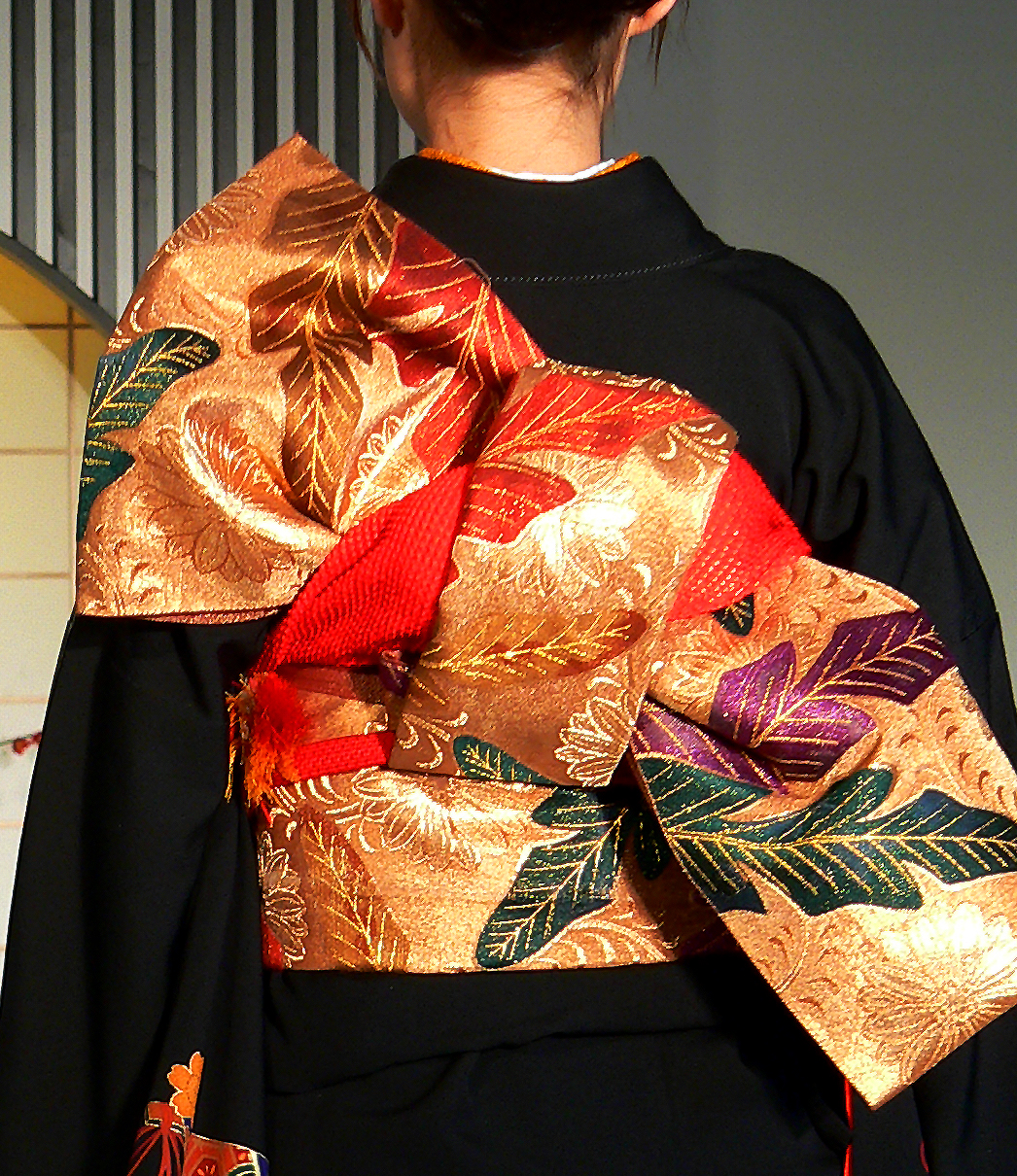 A close-up on a young woman's formal "tateya musubi" obi knot.